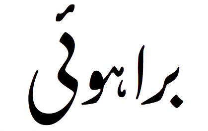 Brahui is a Dravidian language spoken primarily by the Brahui people in the central part of Balochistan Province, in Pakistan and in scattered parts of Iran, Afghanistan and Turkmenistan.